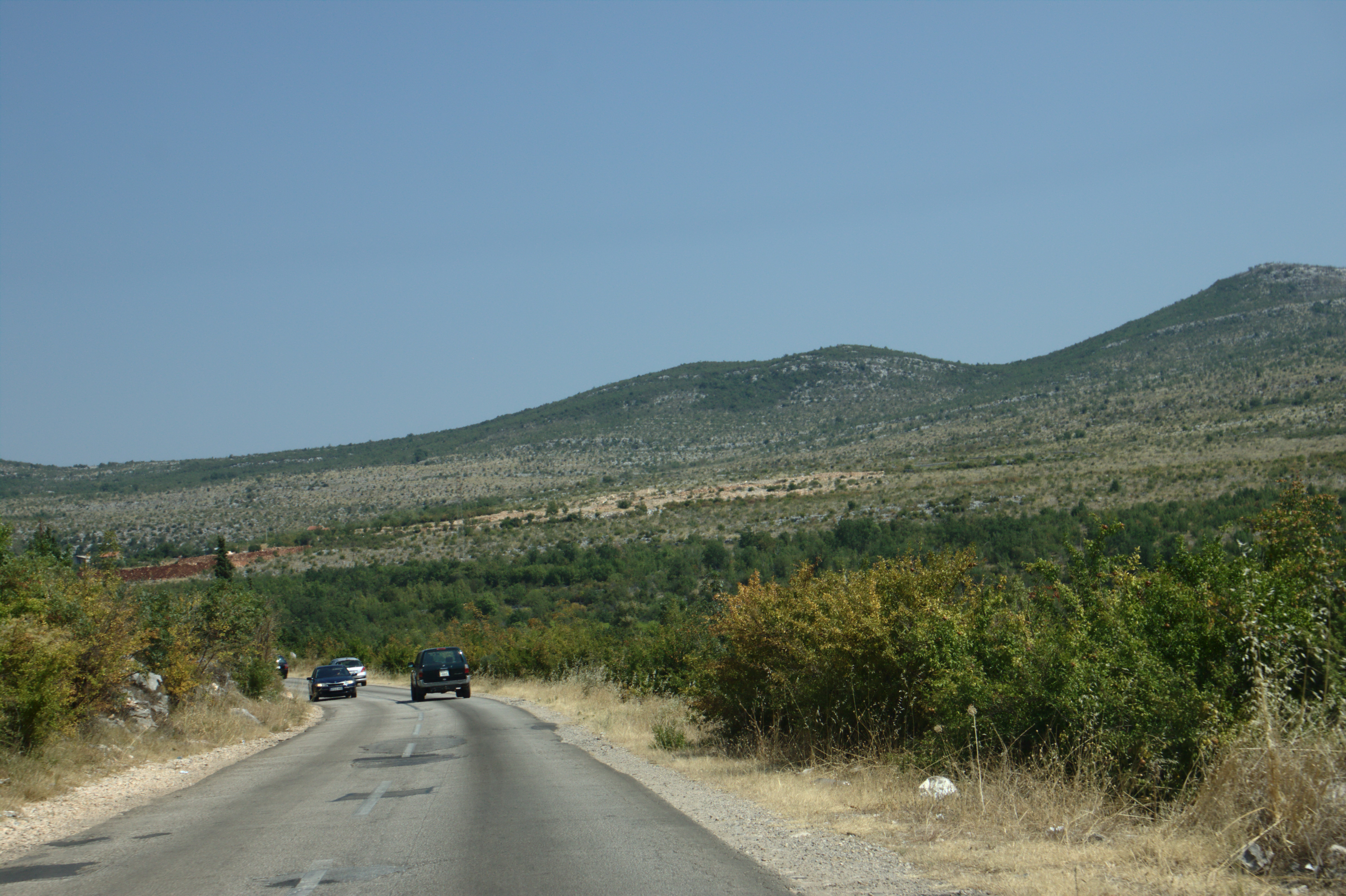 A road near Kravice, Bosnia and Herzegovina